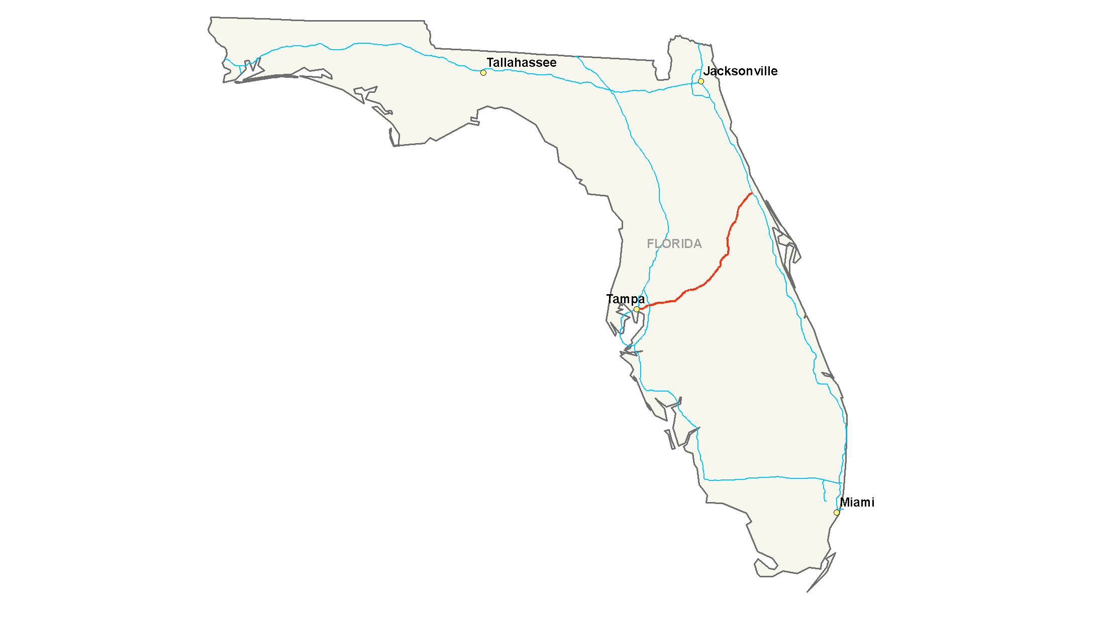 Map of Interstate 4